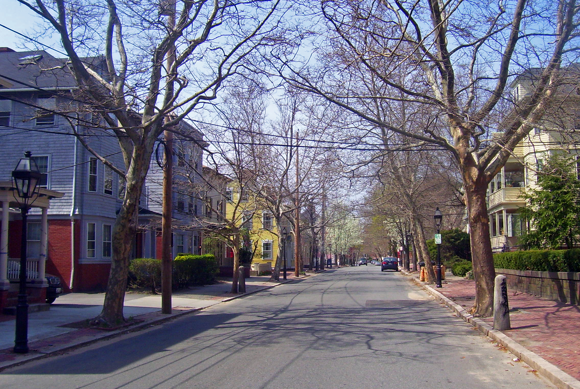 View north down Benefit Street in Providence, RI, USA, part of the College Hill Historic District, a National Historic Landmark District